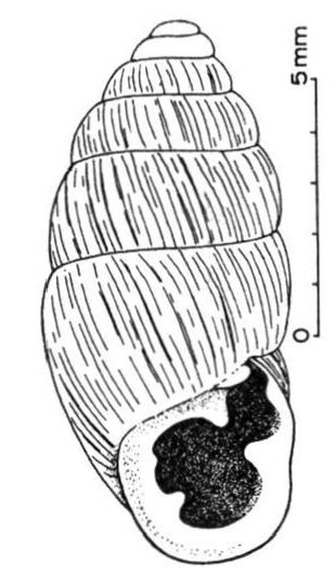 Drawing of apertural view of a shell of Chondrula tridens